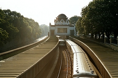 Vienna Metro, a train at the station Kennedybrücke-Hetzing, by